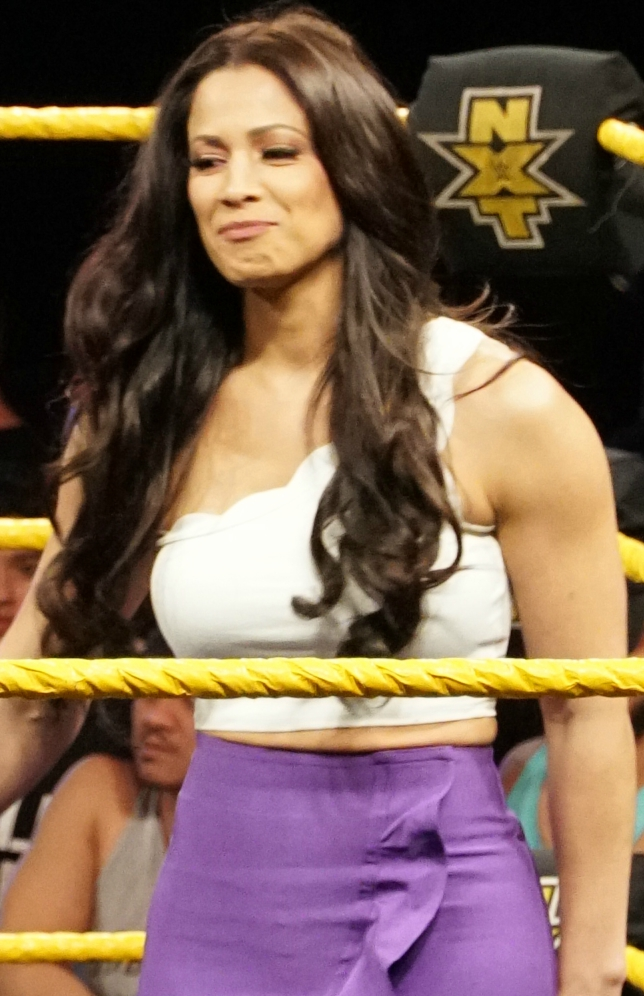 WWE Ring announcer Dasha Fuentes at the 2018 WrestleMania Axxess in April 2018